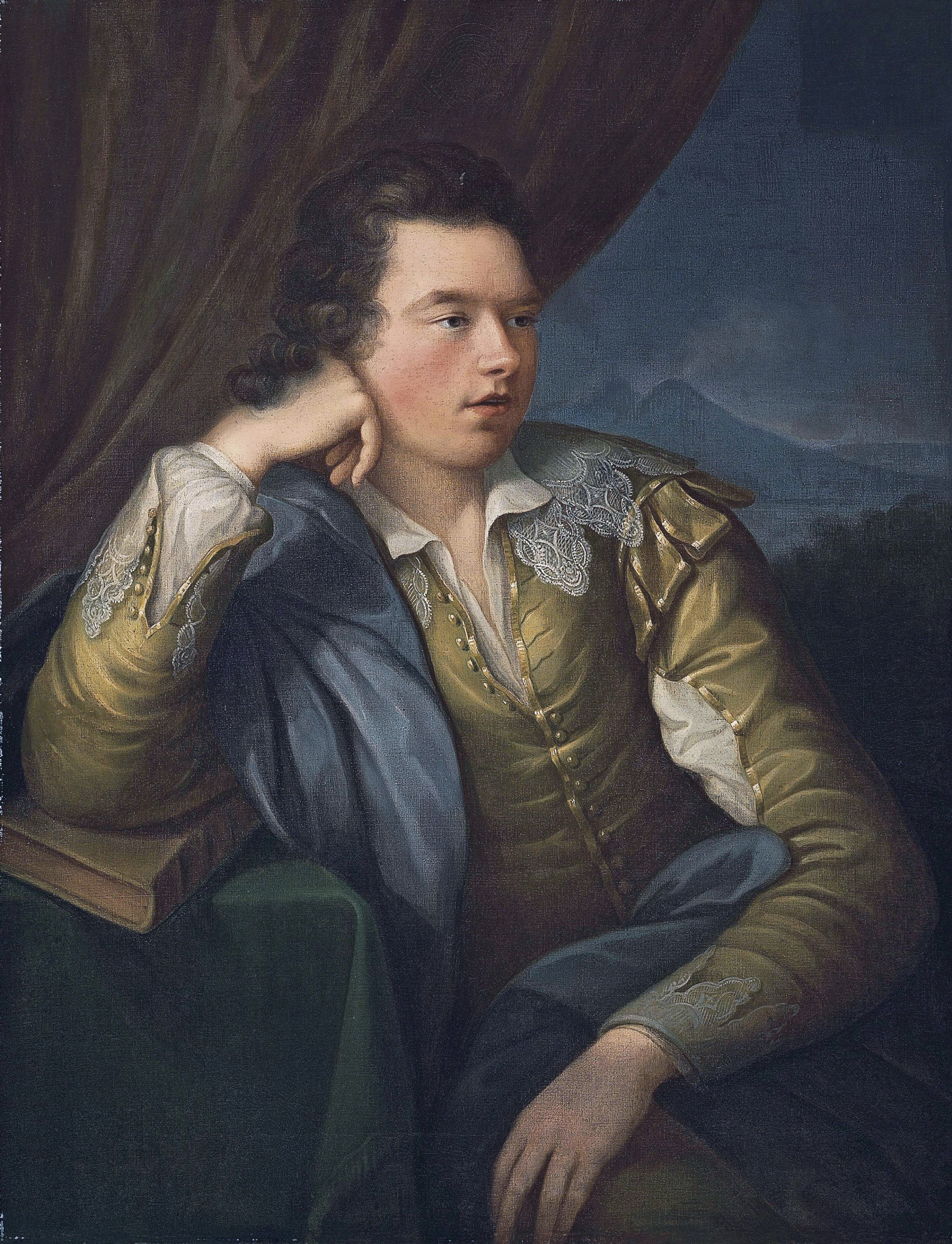 John Campbell, 4th Earl and 1st Marquess of Breadalbane (1762-1834) oil on canvas 91.15 x 71.1 cm.